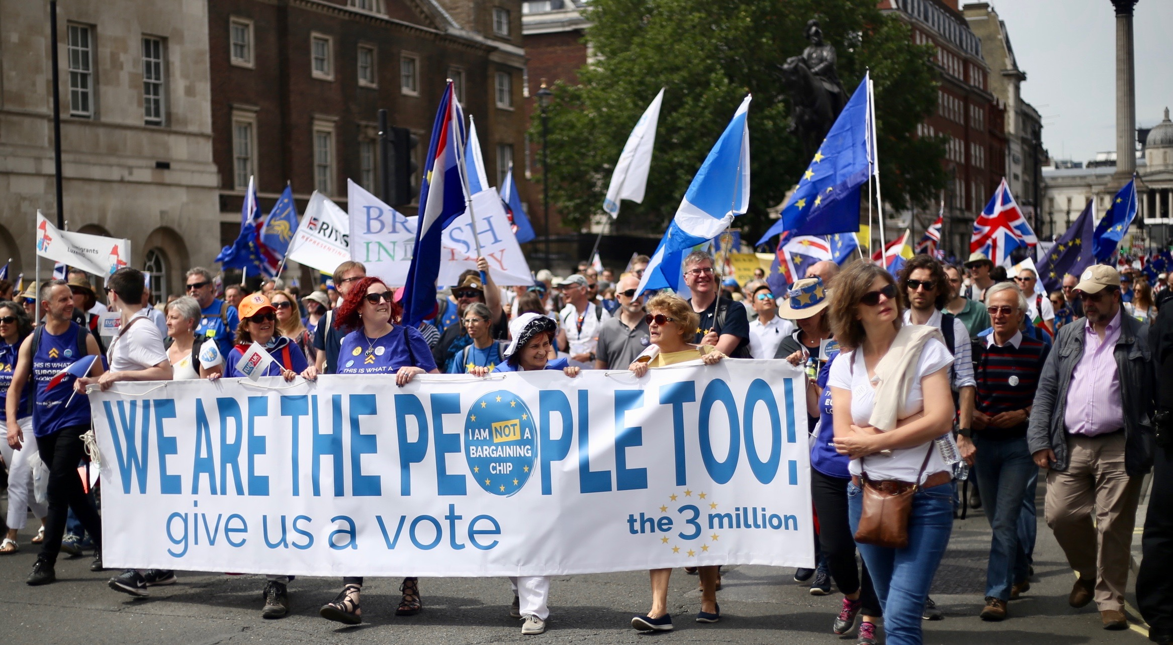 people's vote